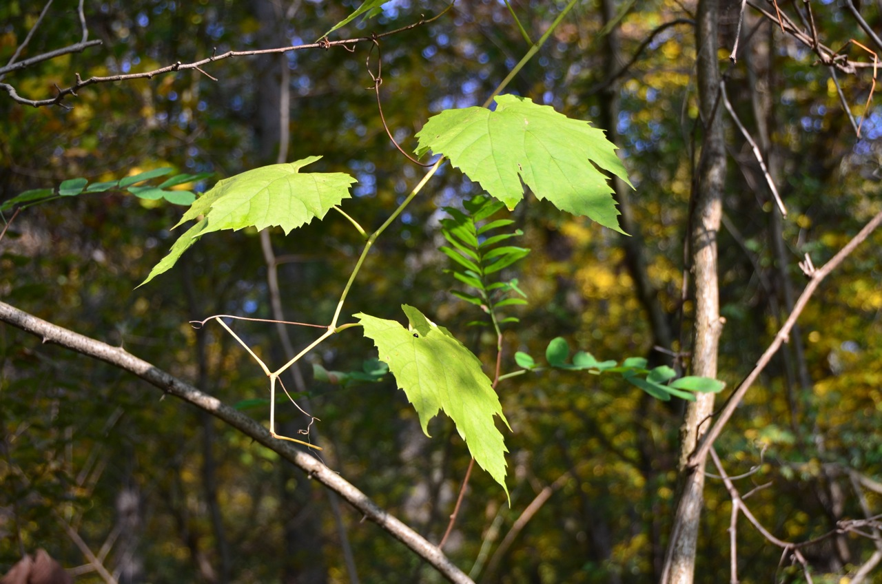 Vitis vinifera subsp. sylvestris - Waldwein